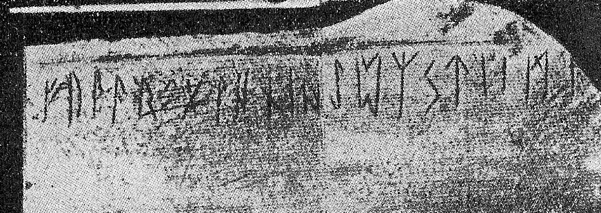 Brezapelaren med futhark. The futhark from Breza, Bosnia